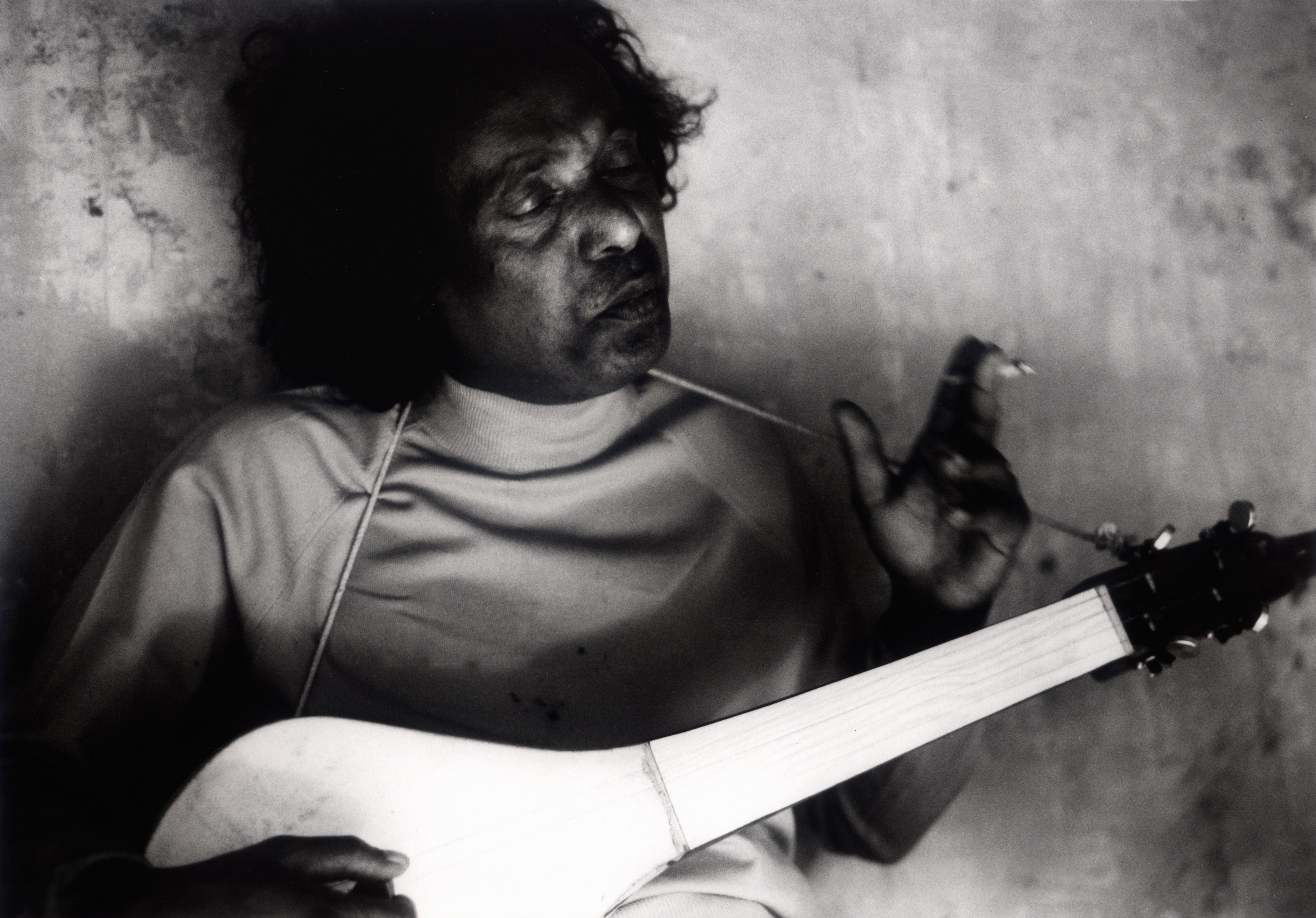 Portrait of Basudeb Das Baul by Diptanshu Roy aka Dolinman